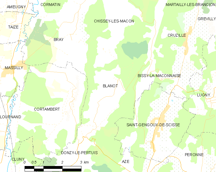 Map of French municipality